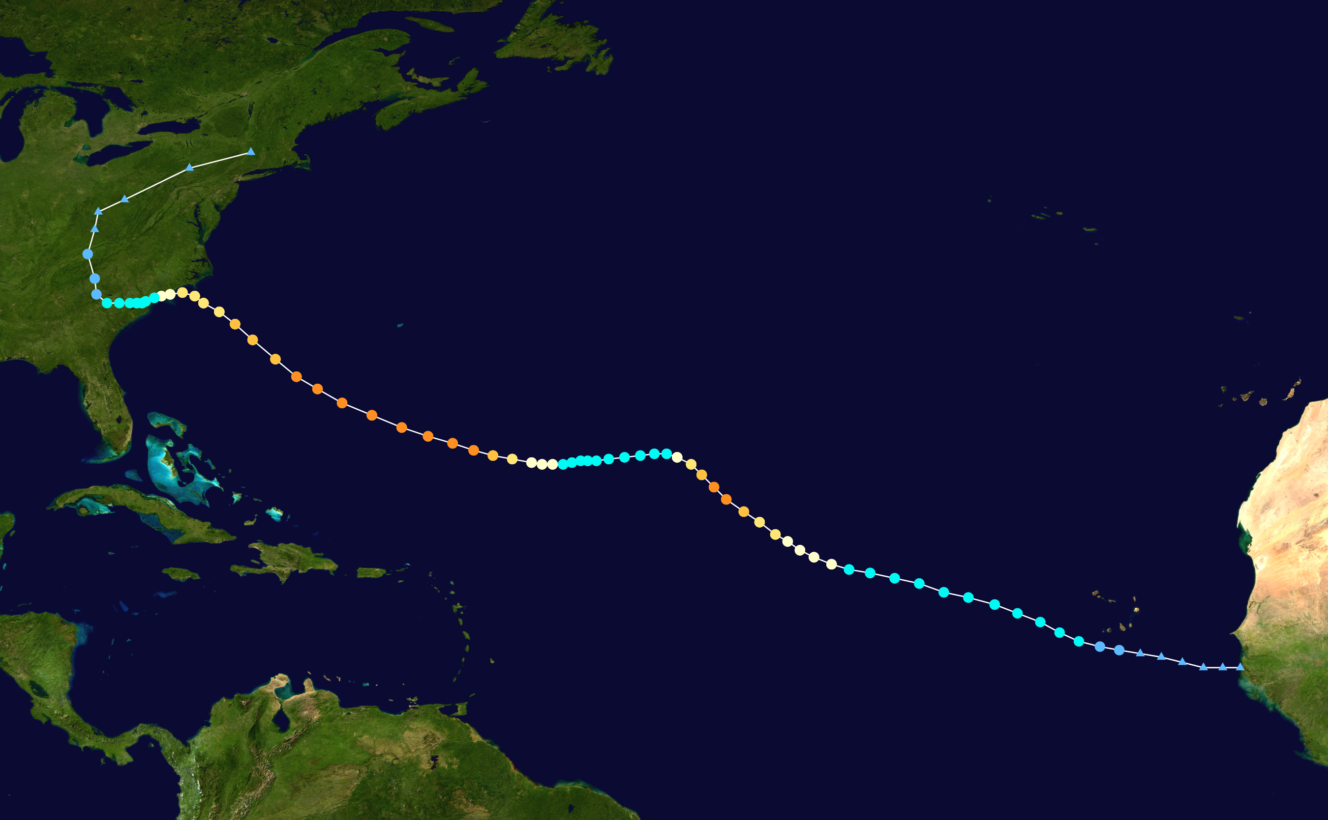 Track map of Hurricane Florence of the 2018 Atlantic hurricane season. The points show the location of the storm at 6-hour intervals. The colour represents the storm's maximum sustained wind speeds as classified in the Saffir–Simpson scale (see below), and the shape of the data points represent the nature of the storm, according to the legend below. Saffir–Simpson scale Tropical depression≤38 mph≤62 km/h Category 3111–129 mph178–208 km/h Tropical storm39–73 mph63–118 km/h Category 4130–156 mph209–251 km/h Category 174–95 mph119–153 km/h Category 5≥157 mph≥252 km/h Category 296–110 mph154–177 km/h Unknown Storm type Tropical cyclone Subtropical cyclone Extratropical cyclone / Remnant low / Tropical disturbance / Monsoon depression